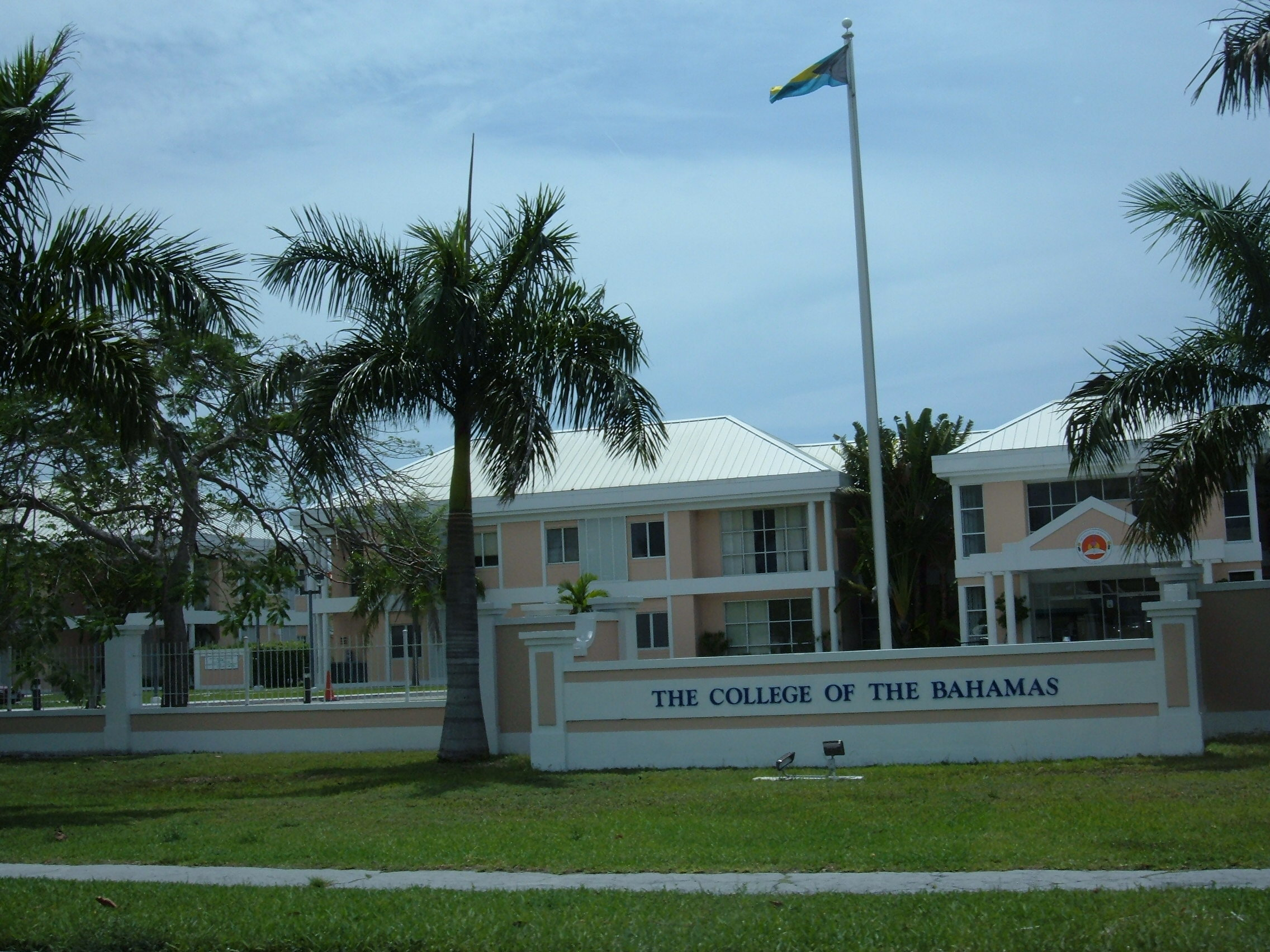 The main campus of the College of the Bahamas in Nassau, the Bahamas.